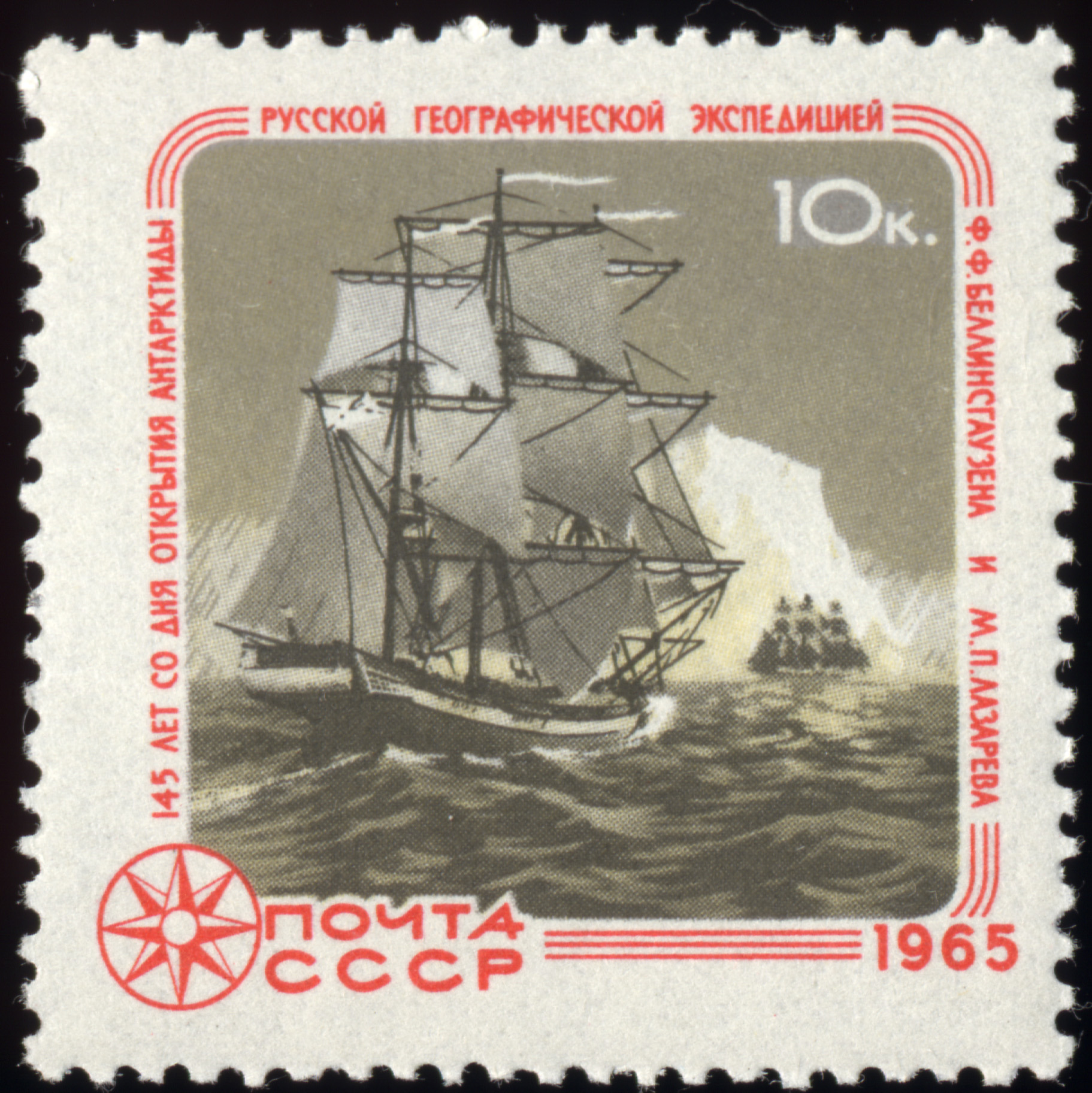 1965 Soviet Union 10 kopeks stamp. 145 years anniversary of discovery of Antarctica.